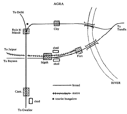 Diagramatic map of railways in Agra